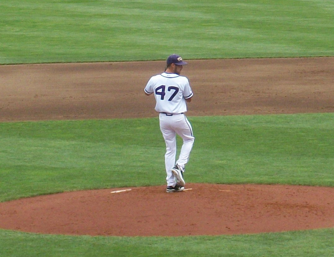 Matt Purke pitching for TCU at the 2010 College World Series at Johnny Rosenblatt Stadium in Omaha, Nebraska, USA.